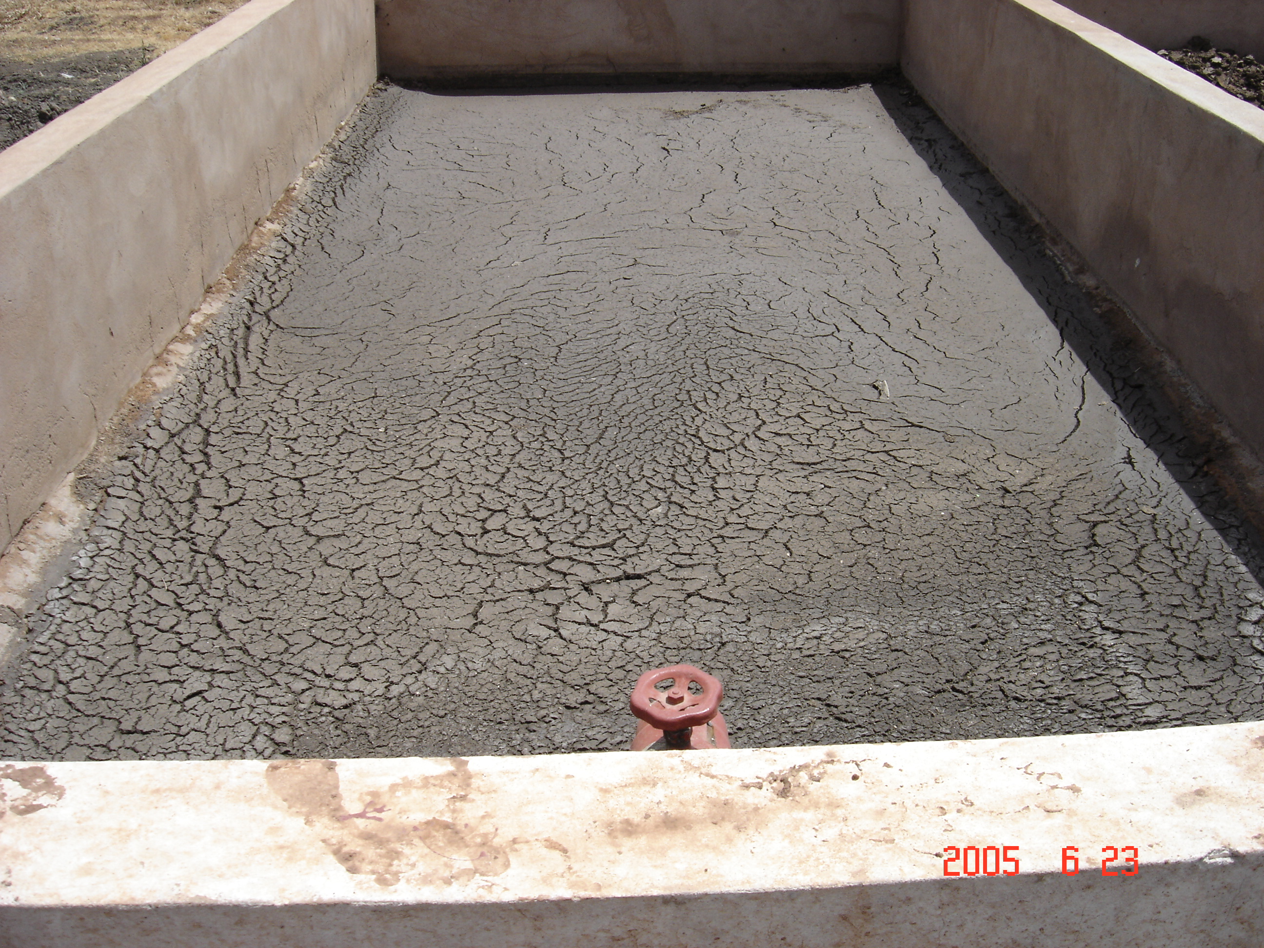 Photo sent by Bouchaib El Hamouri in Sept. 2013